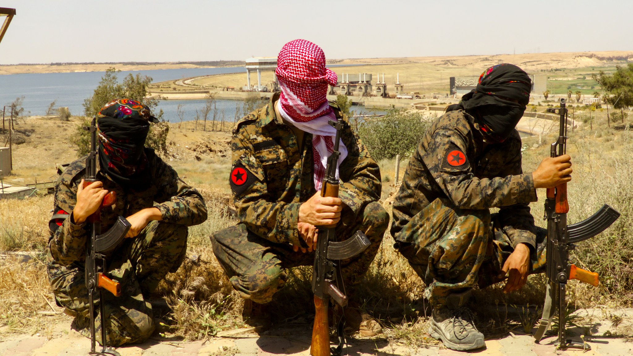 IRPGF fighters in Tabqa (at Syrian civil war)